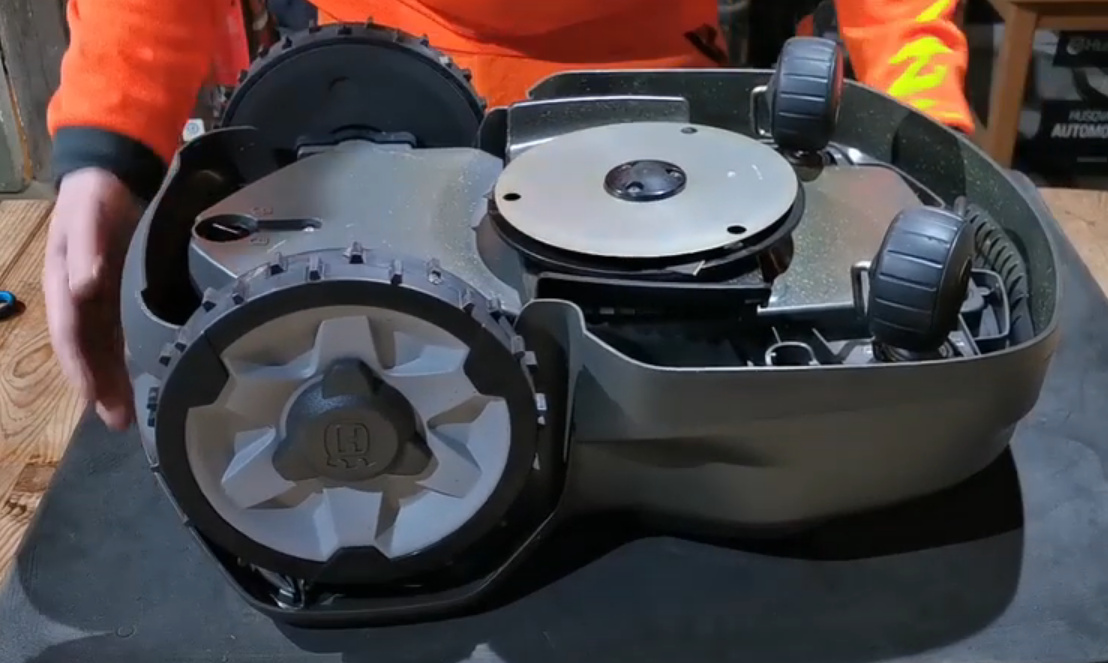 Underside of a 2020 Husqvarna Automower 305, showing the cutting system